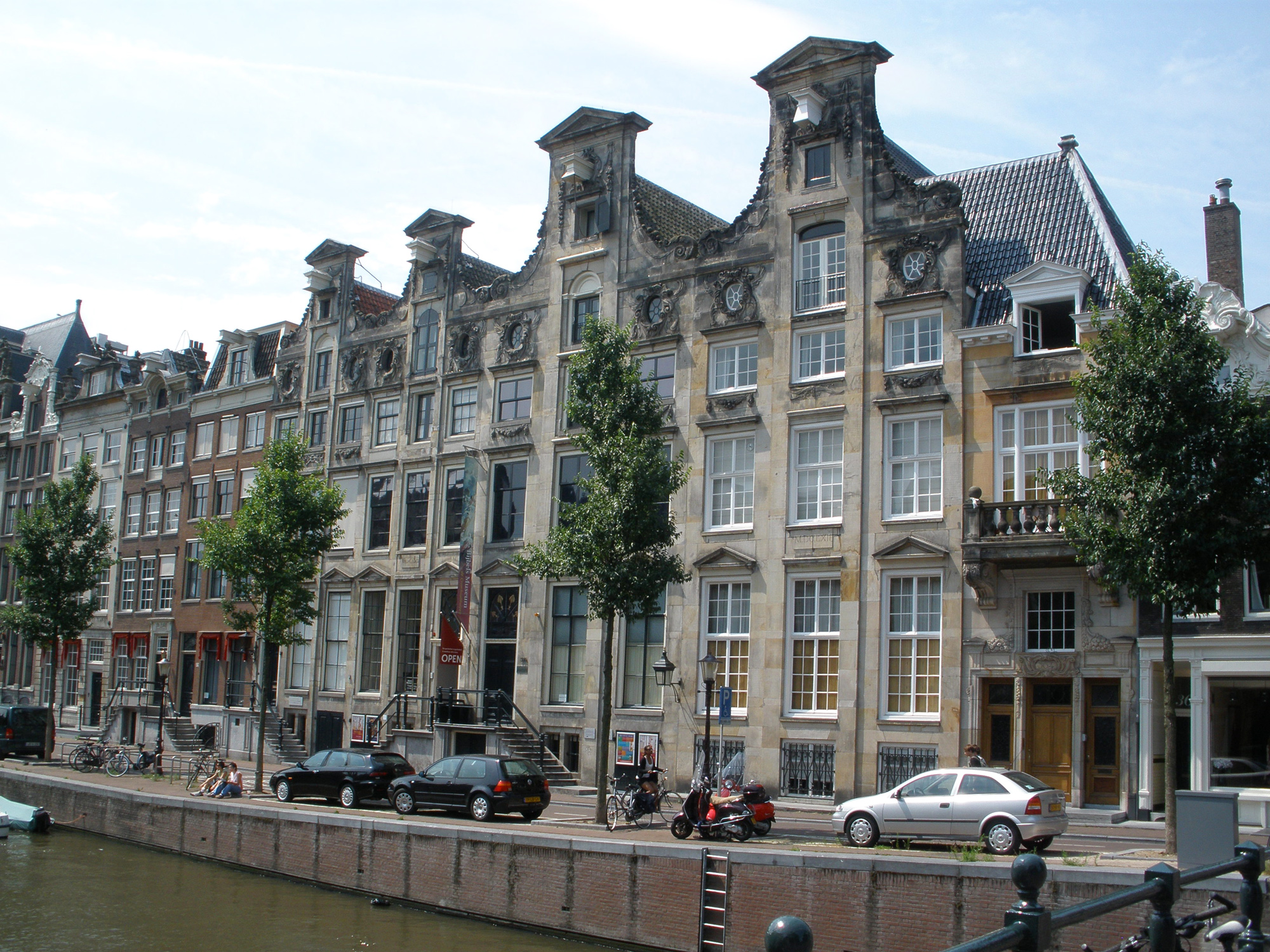 The Bijbels Museum (Biblical Museum) on the Herengracht canal in Amsterdam